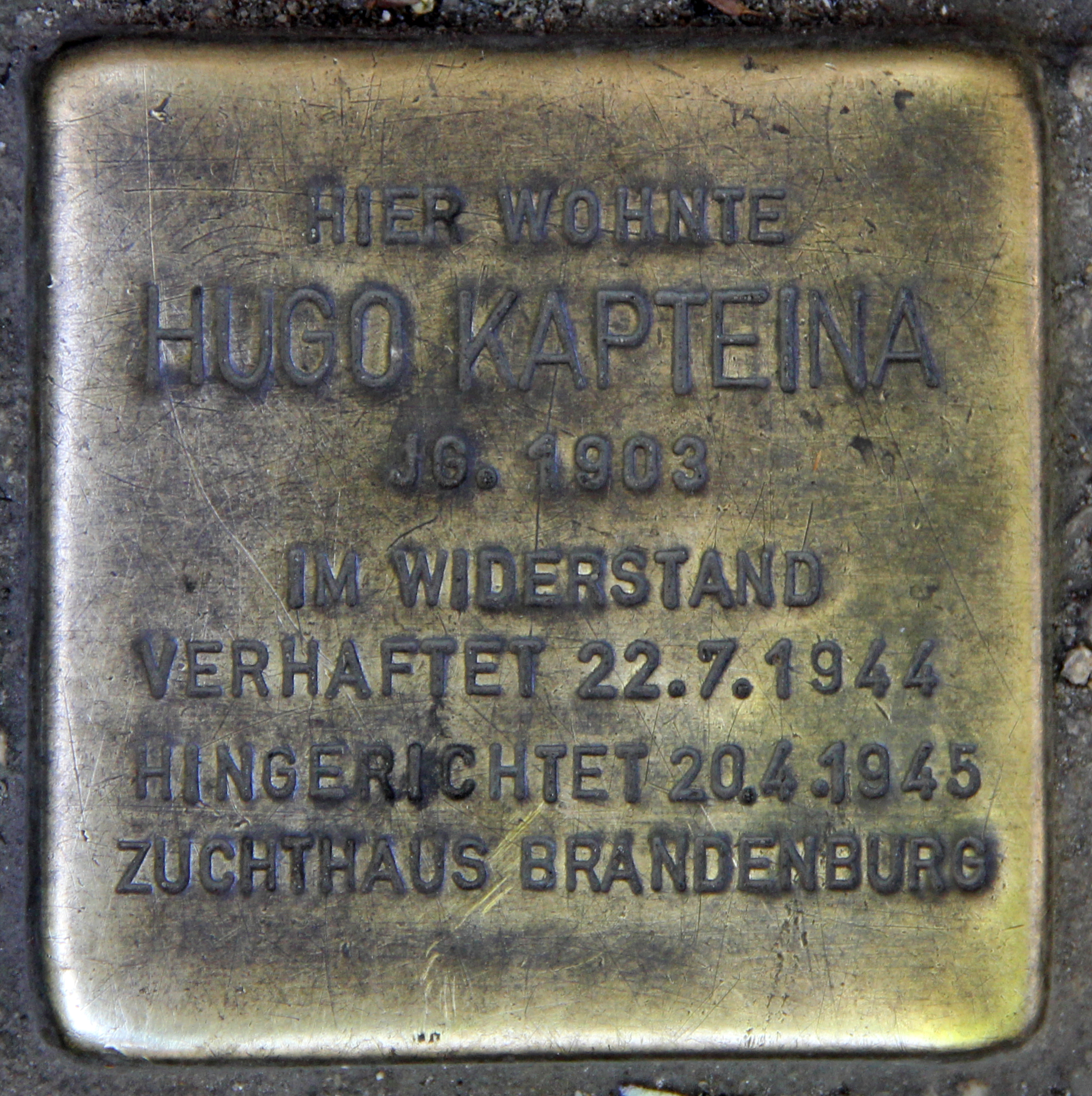 "Stolperstein" (stumbling block), Hugo Kapteina, Weserstraße 54, Berlin-Neukölln, Germany